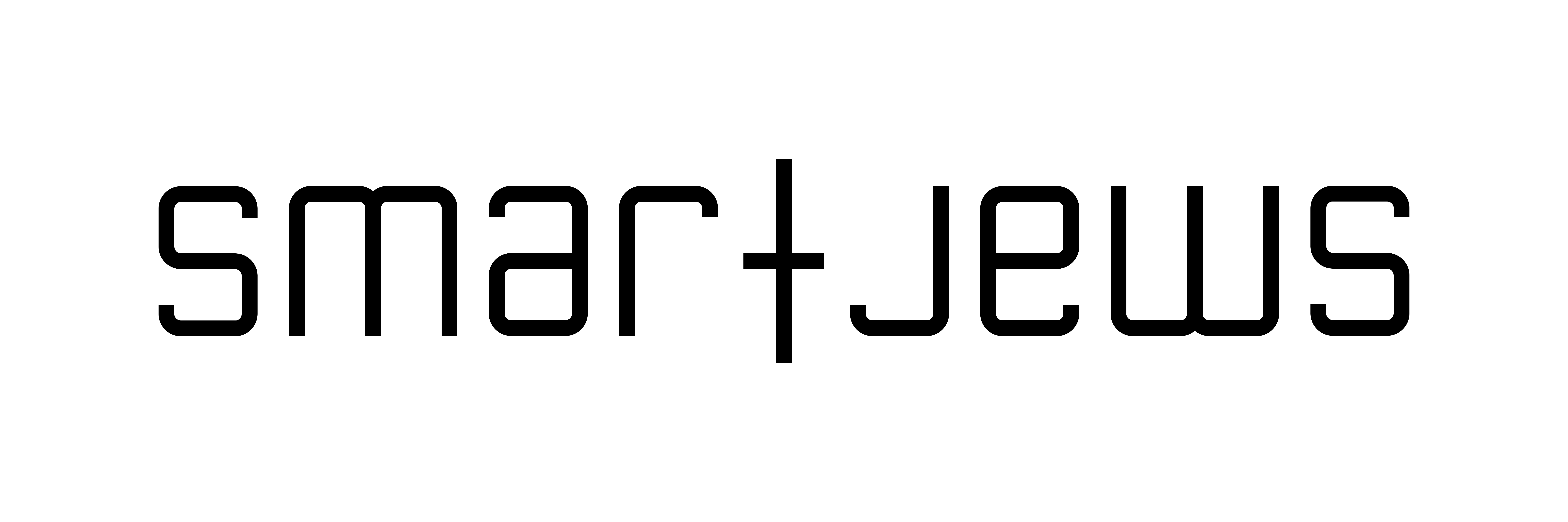 Ambigram Smart Jews. 180° rotational symmetry.